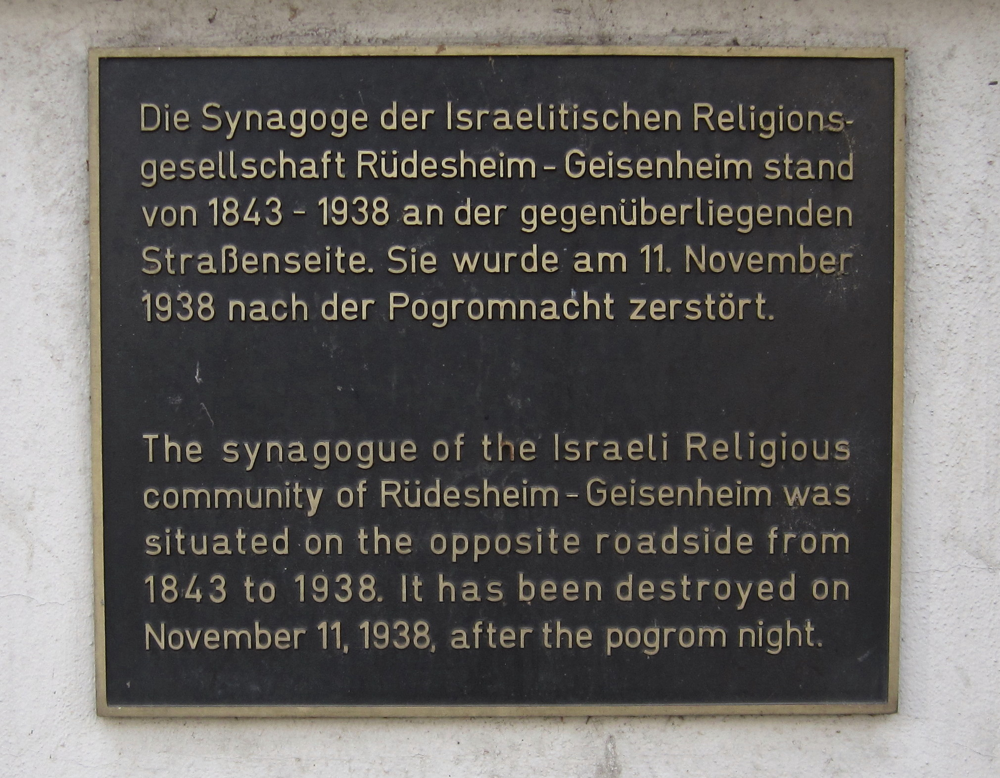 Memorial tablet for the former synagogue, Rüdesheim am Rhein, Hesse, Germany.